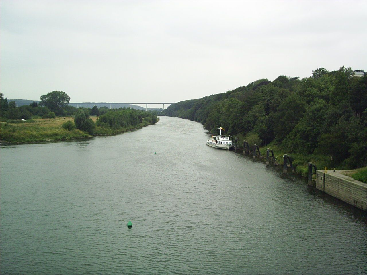 River Ruhr, Essen-Kettwig, Germany check usage